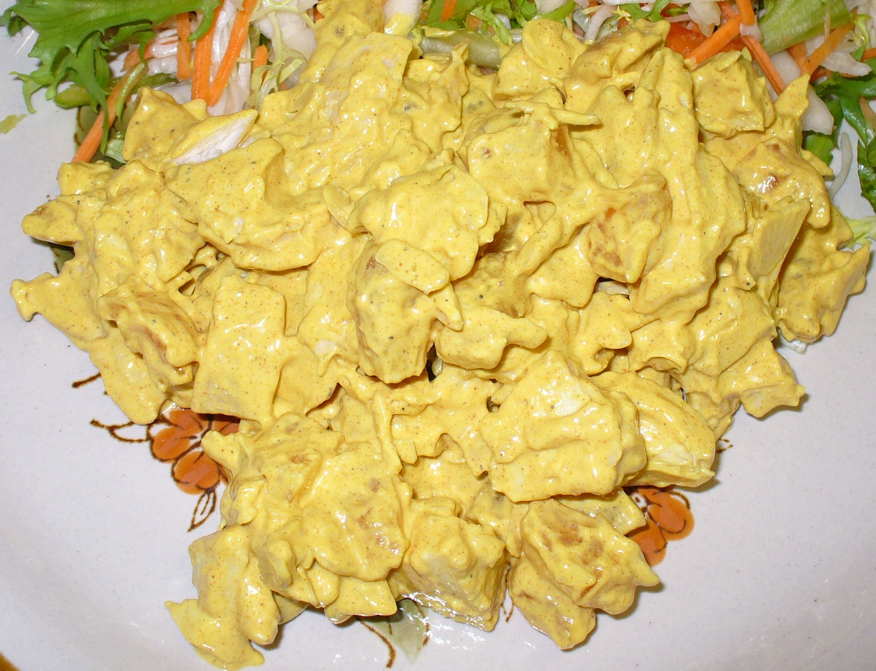 A plate of Coronation Chicken with a salad.